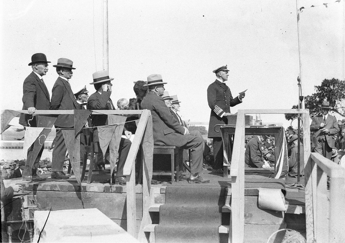 Admiral Sir Dudley de Chair, NSW Governor, speaking at laying the foundation stone, Sydney Harbour Bridge